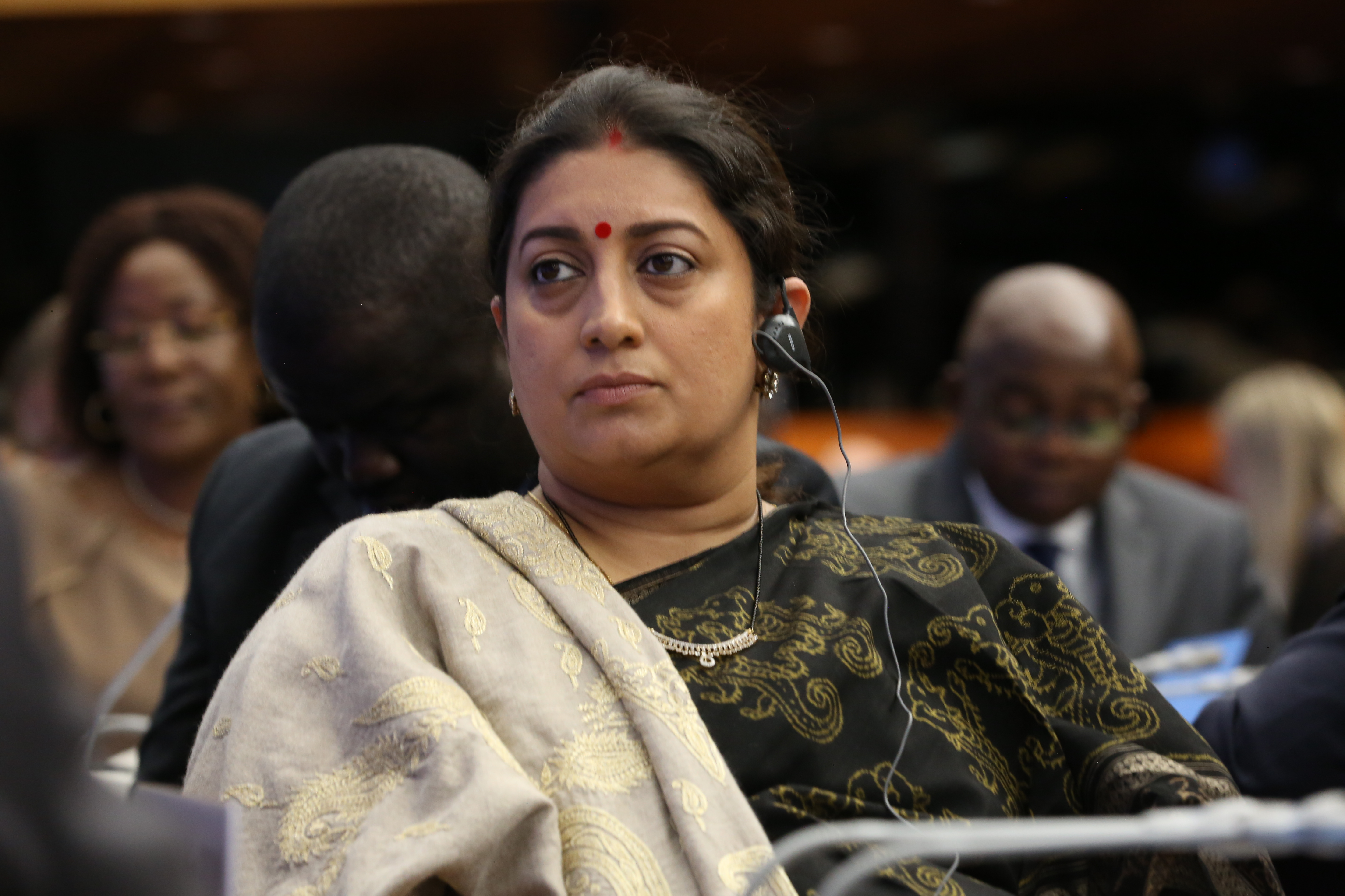 Smriti Irani, Minister of Textiles of India, at World Cotton Day — 7 October 2019 - Photos from the World Cotton Day photo gallery may be reproduced provided attribution is given to the WTO and the WTO is informed. Photos: © WTO/Ave Kuluki